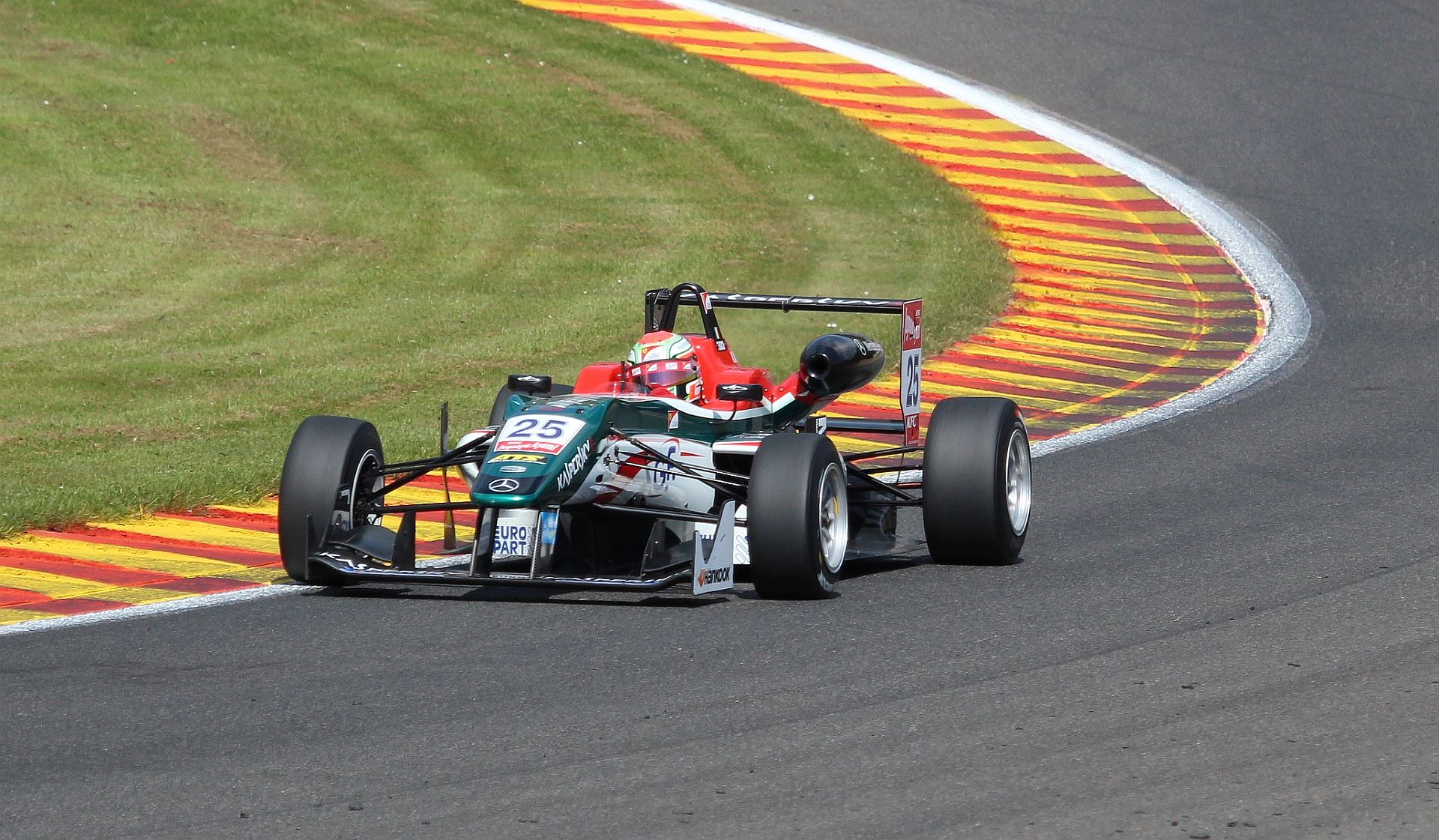 Antonio Fuoco at Spa in 2014, European Formula 3 Championship